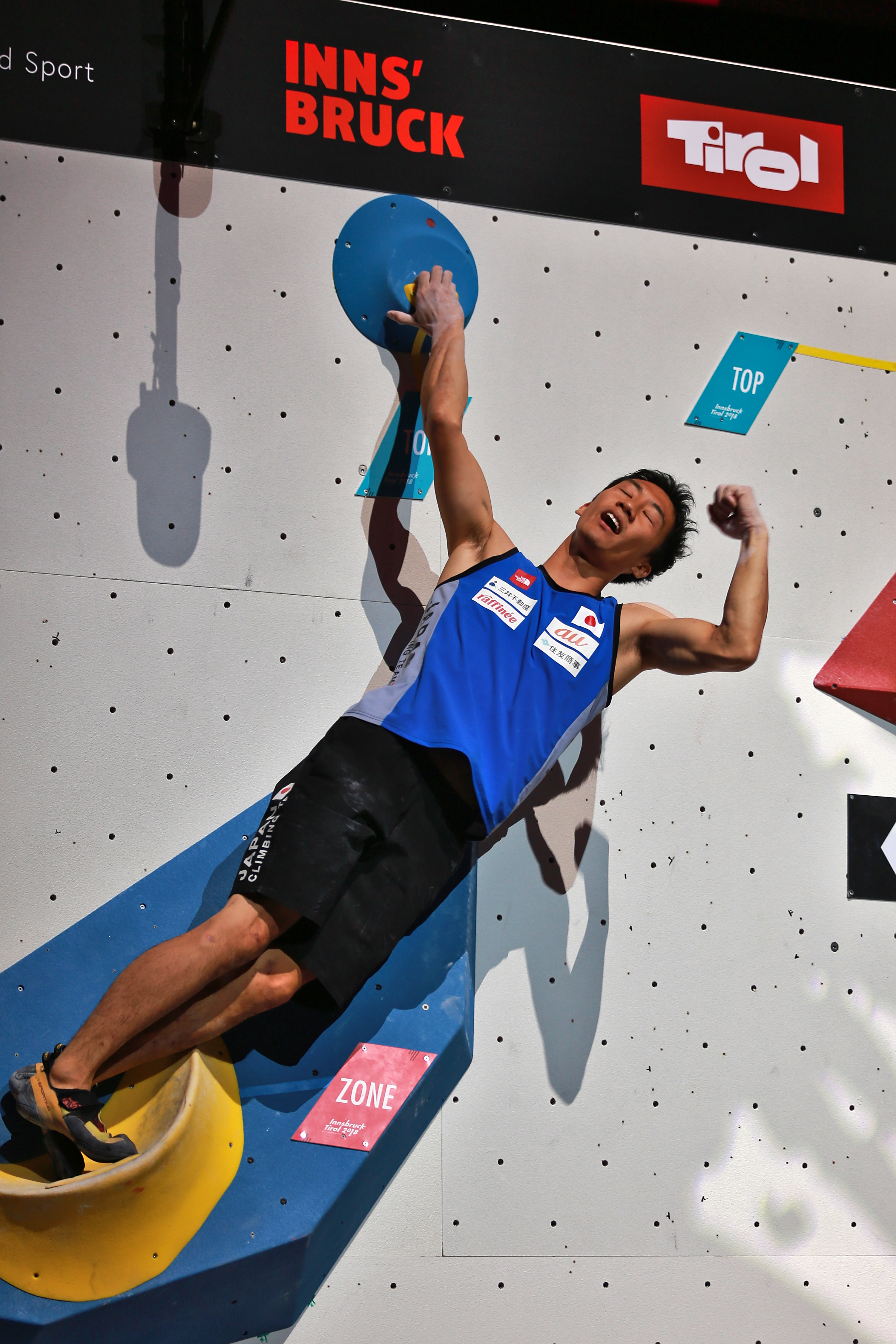 Climbing World Championships 2018 Boulder Final Watabe